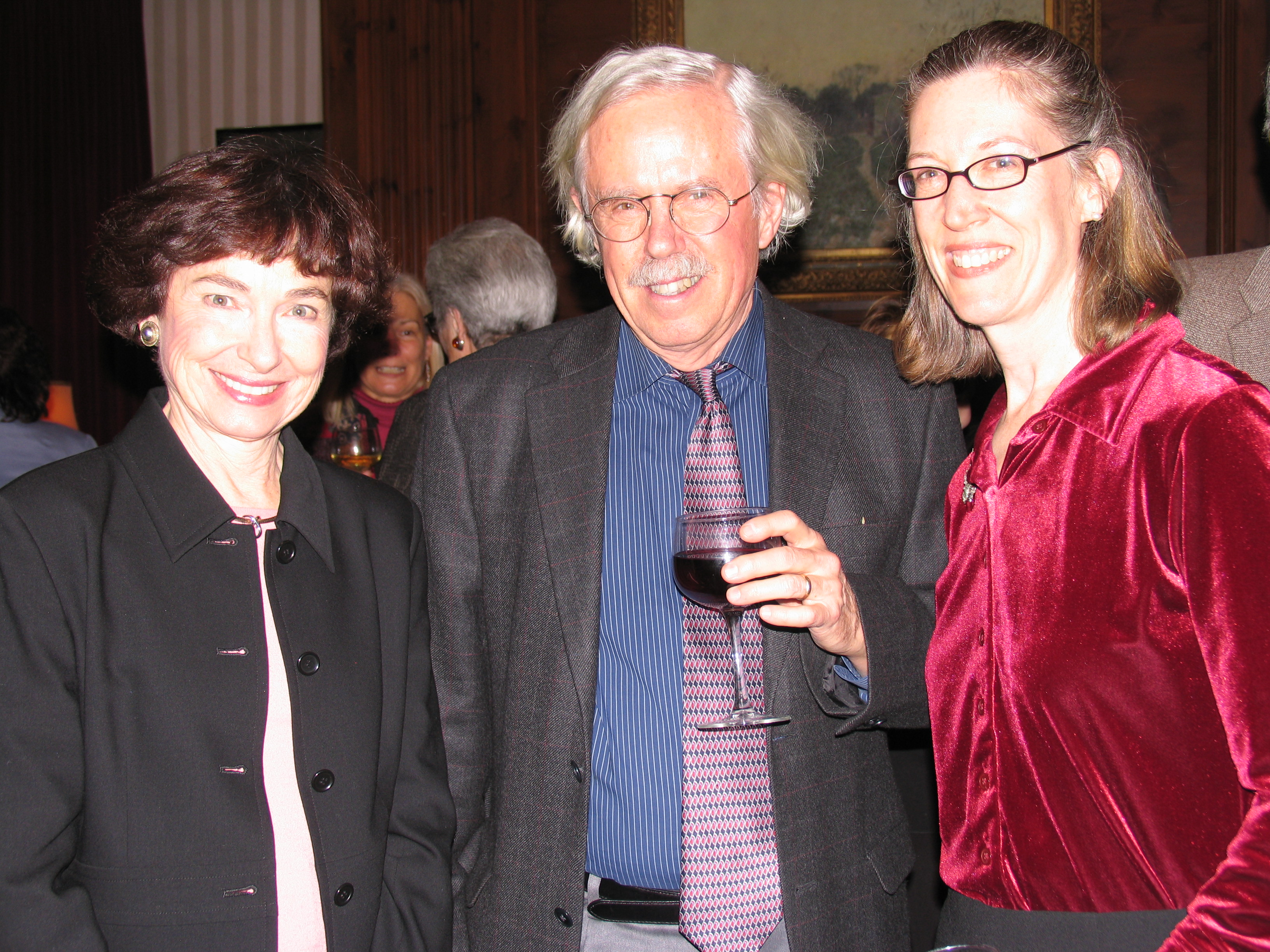 Dan W. Brock